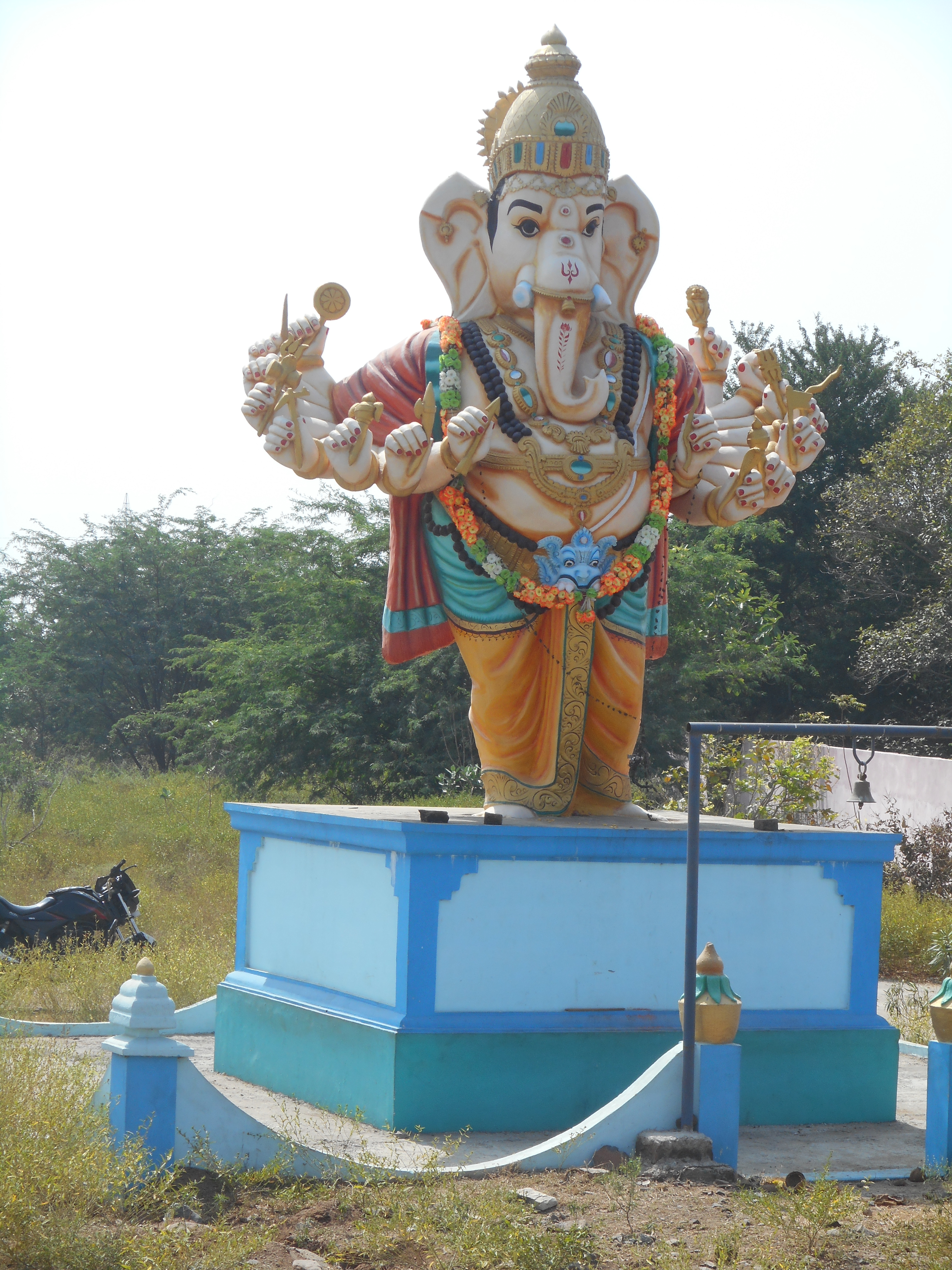 Vinayaka Statue at the entrance of Sada Shiva Brahmendra Ashram in Chillakallu village, krishnaa district